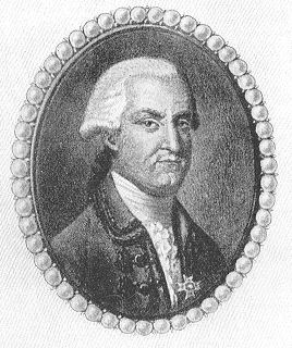 LOUIS-FRANCOIS La CORNE New France c.1750